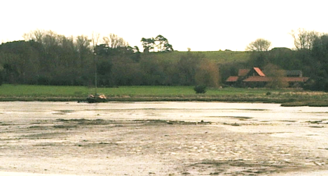 View of Sutton Hoo, Suffolk, from the Deben tideway, with Mound 2 visible on the horizon.